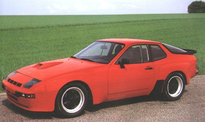 Porsche 924 Carrera GTS